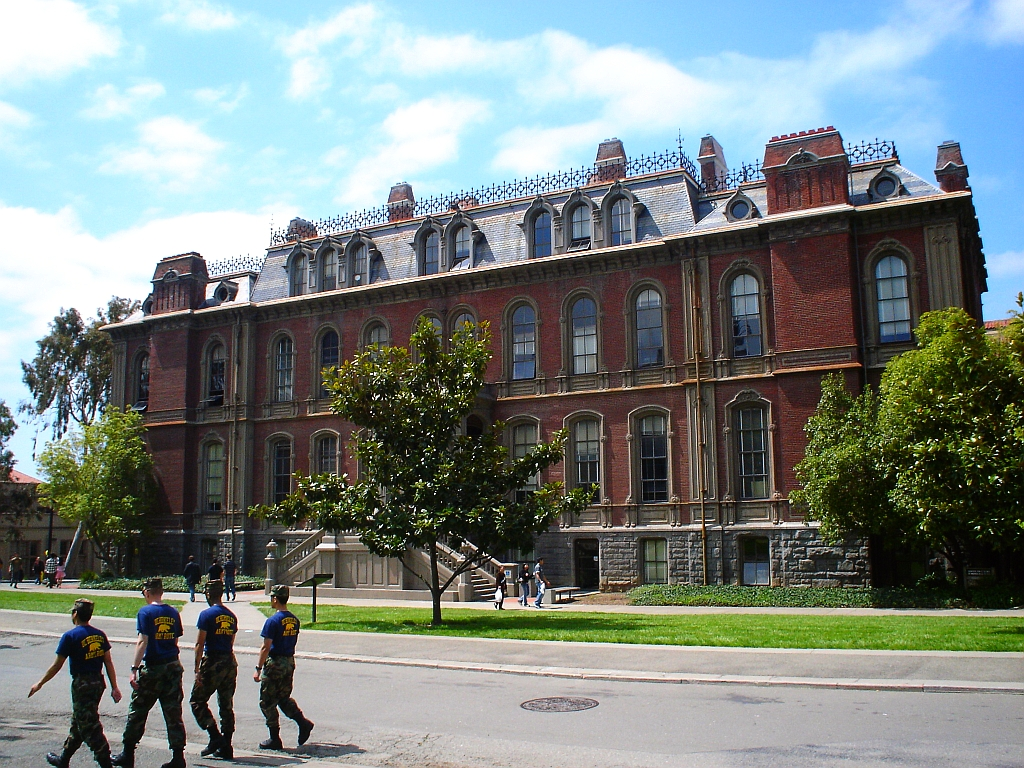 Taken by me during Cal Day 2006. It is a corrected version of an already exisiting work I uploaded to the UC Berkeley commons media. The old work, featured on the main article, was not satisfactory enough.